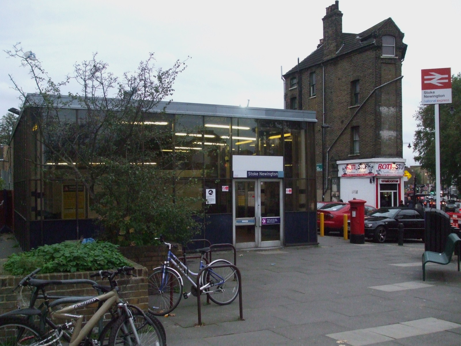 Stoke Newington station building